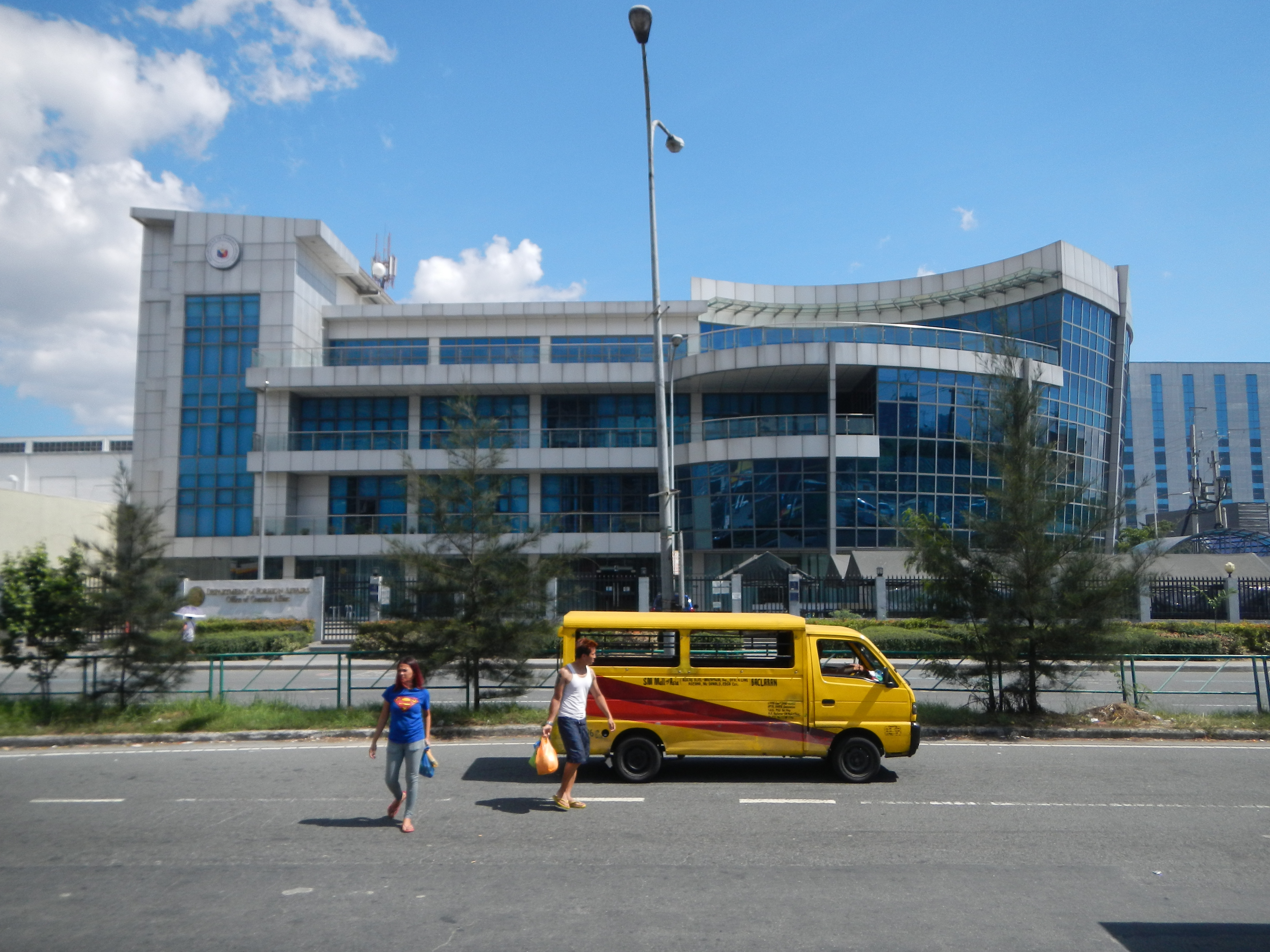 Upload Wizard photos of - Macapagal Boulevard [1] at Parañaque City [2], Department of Foreign_Affairs (Philippines) [3] Uniwide Sales Coastal Mall, Provincial Bus Terminal - Metropolitan Manila Development Authority[4] Southwest Integrated Transport System, Parañaque City; Nota Bene - the Central Bus, Jeep, FX or Van Terminal is the only place where travelers and tourists can go to get a ride to Cavite and Batangas towns and Cities.